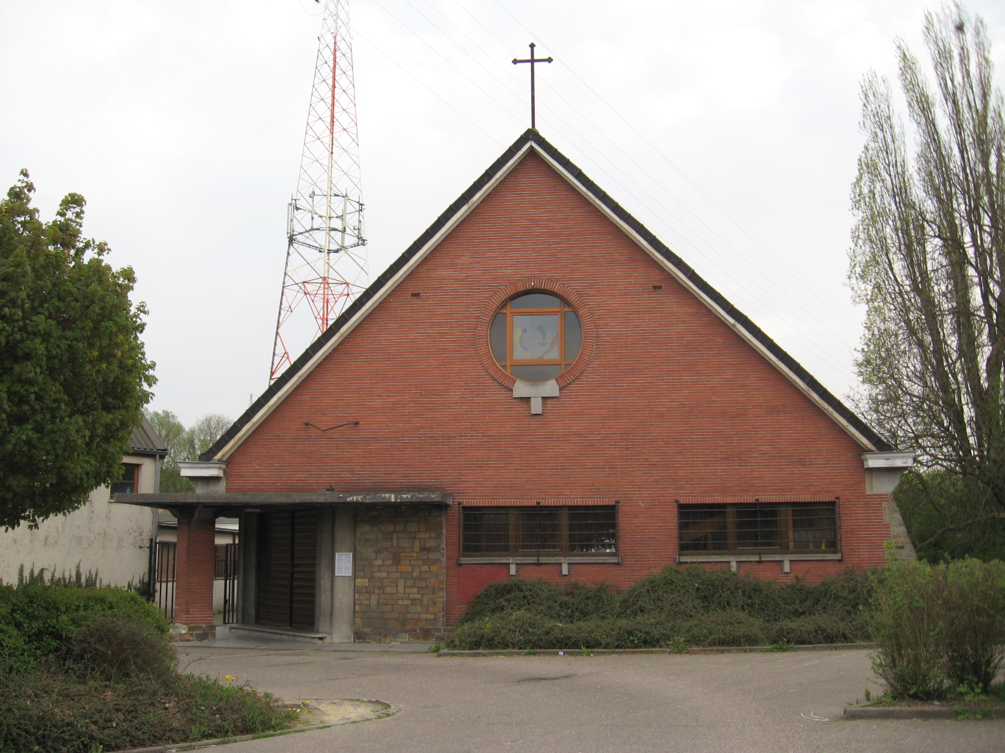 Church of Saint Joseph in Rocourt, Liège, Belgium